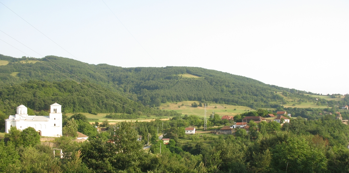 View on Pavlica on Ibar,Raška municipality,Serbia.